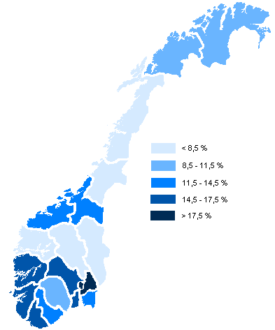 Map of the counties of Norway, showing the elections results for Høgre in the different counties at the parliamentary elections of 2005.